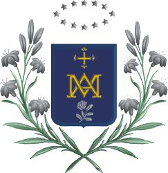 Original shield of the Order of the Company of Mary, Our Lady, founded by Joan of Lestonnac in 1607